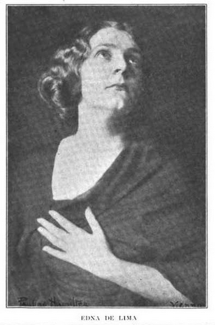 Edna de Lima, from a 1917 publication.